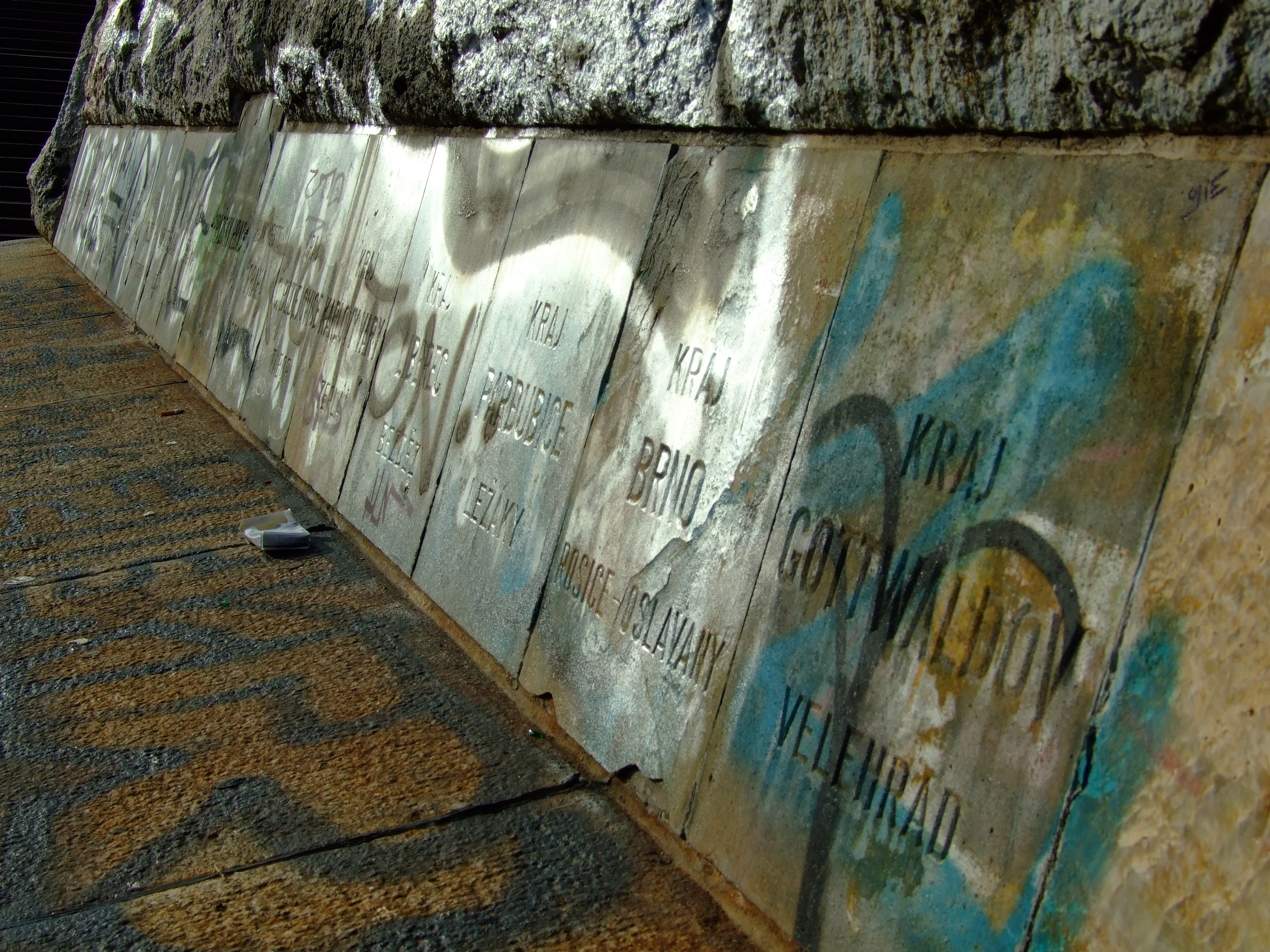 Stones from all regions of former Czechoslovakia on the base of the Stalin's memorial in Prague